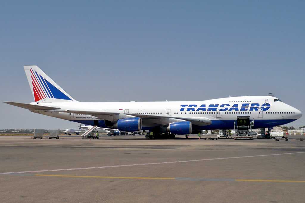 Boeing 747-200 stand at Monastir airport.